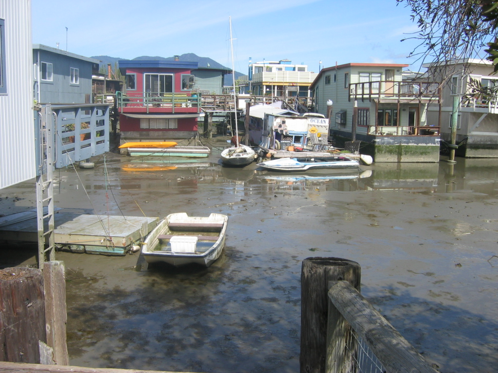 House-boat, Sausalito, California, USA